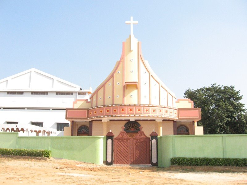 Don Bosco Church, Nandannagar, Roman Catholic Diocese of Agartala.